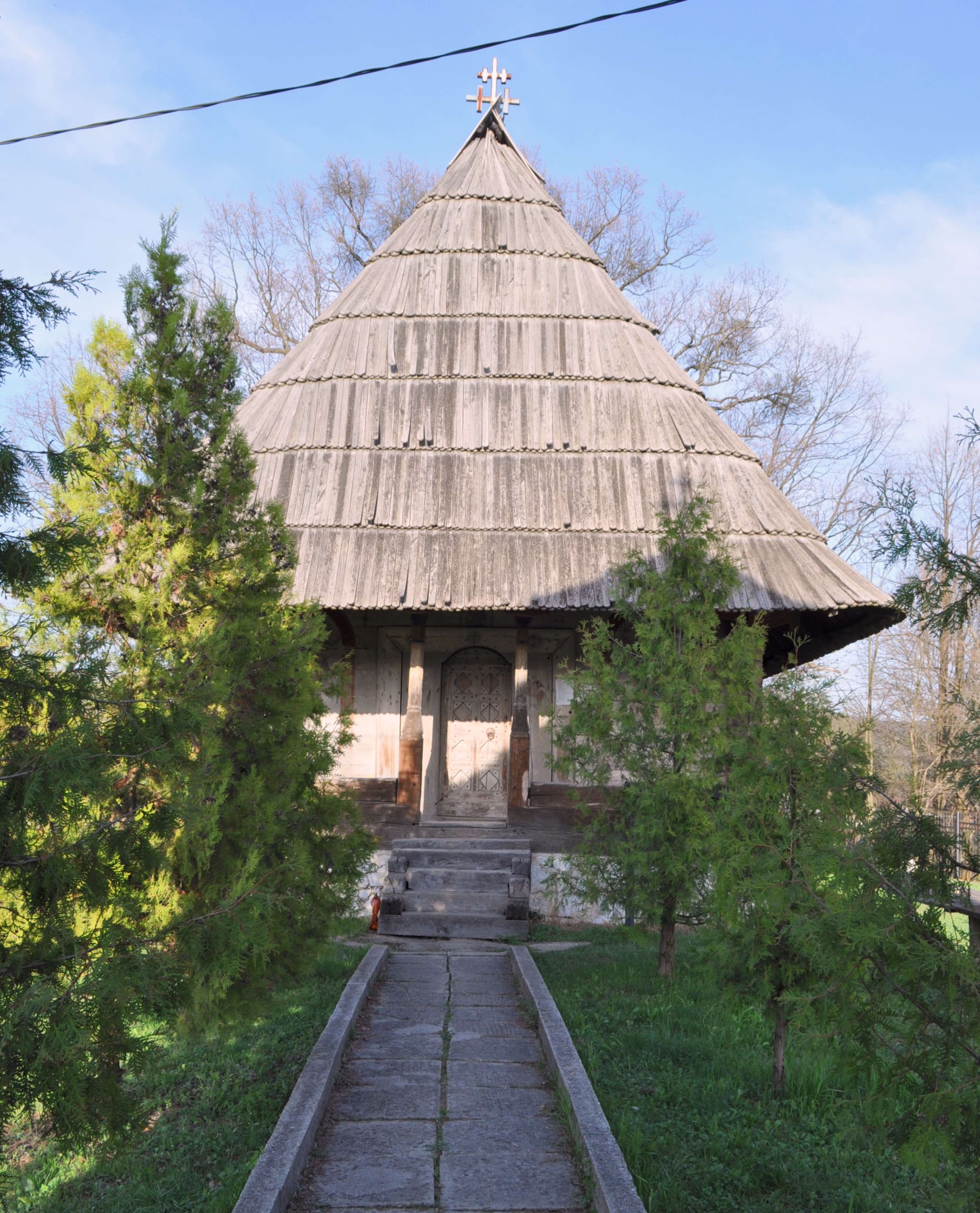 Wooden church in Negomir, Gorj county, Romania